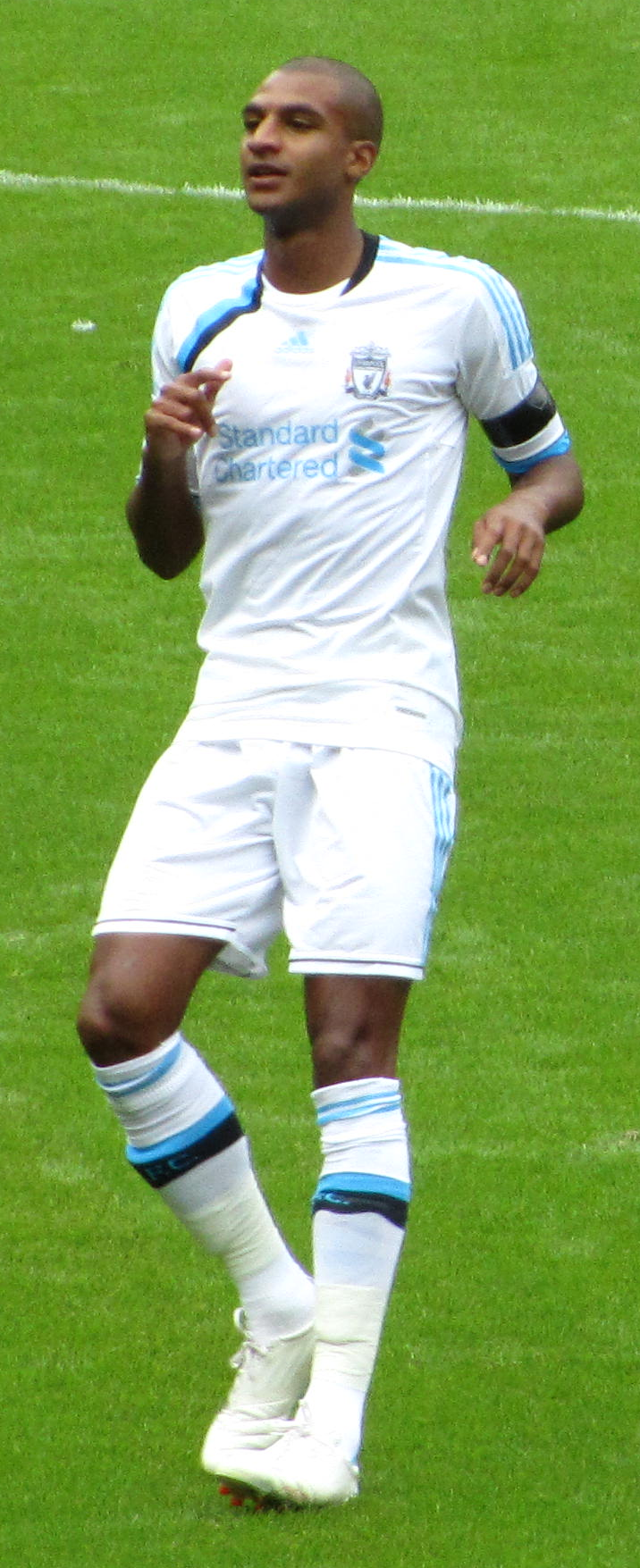 David N'Gog